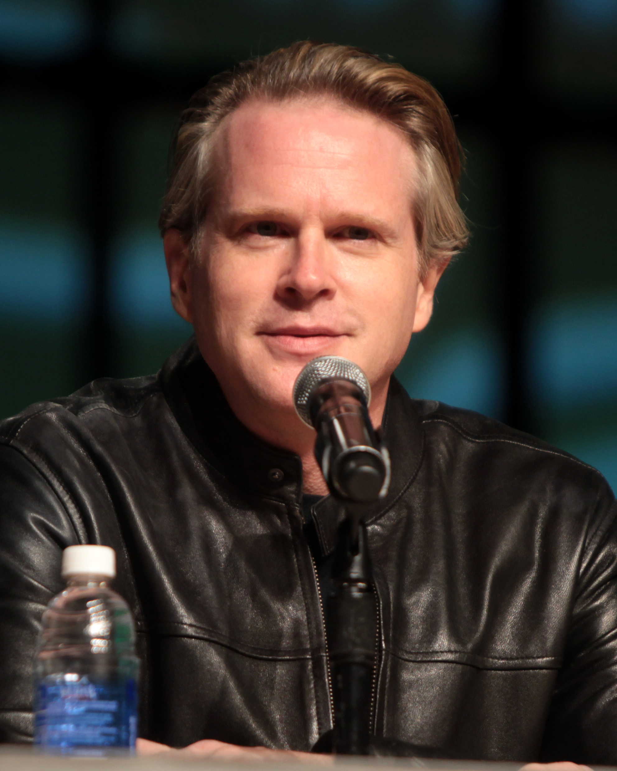 Cary Elwes speaking at the 2014 Phoenix Comicon on June 7, 2014.